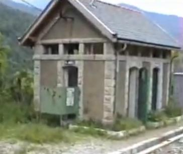 Annex construction to the train station of Fontpédrouse, in the Pirenées Orientales in France